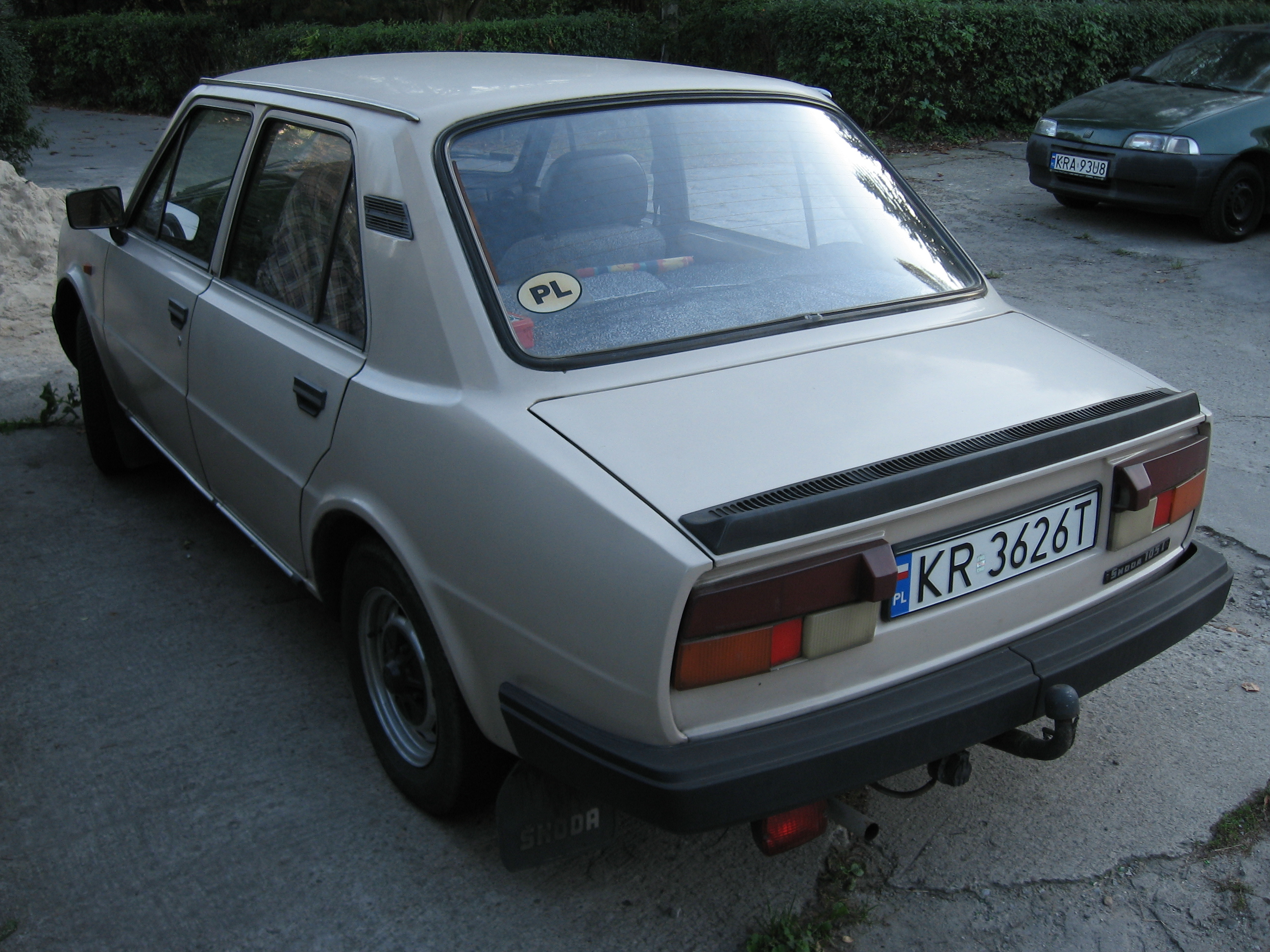 Škoda 105 L produced between 1984 and 1986 in Kraków.